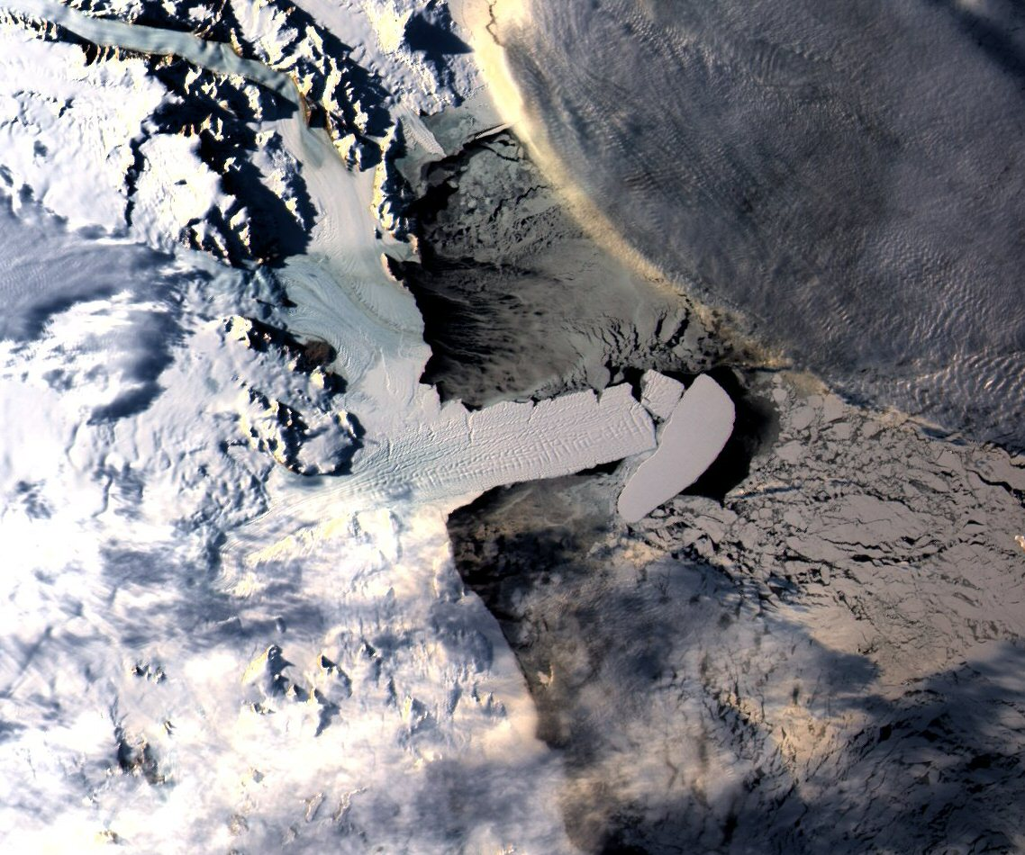 Satellite image of Drygalski ice tongue taken from NASA Aqua satellite with MODIS sensor on 30 March 2006: spatial resolution is 250 meters. The total length of the ice tongue is about 100 km. the picture shows iceberg C-16 breaking off a large portion of the tip of Drygalski ice tongue. Data downloaded from NASA-Goddard Earth Sciences Data and Information Services Center, processed by Luca Pietranera.